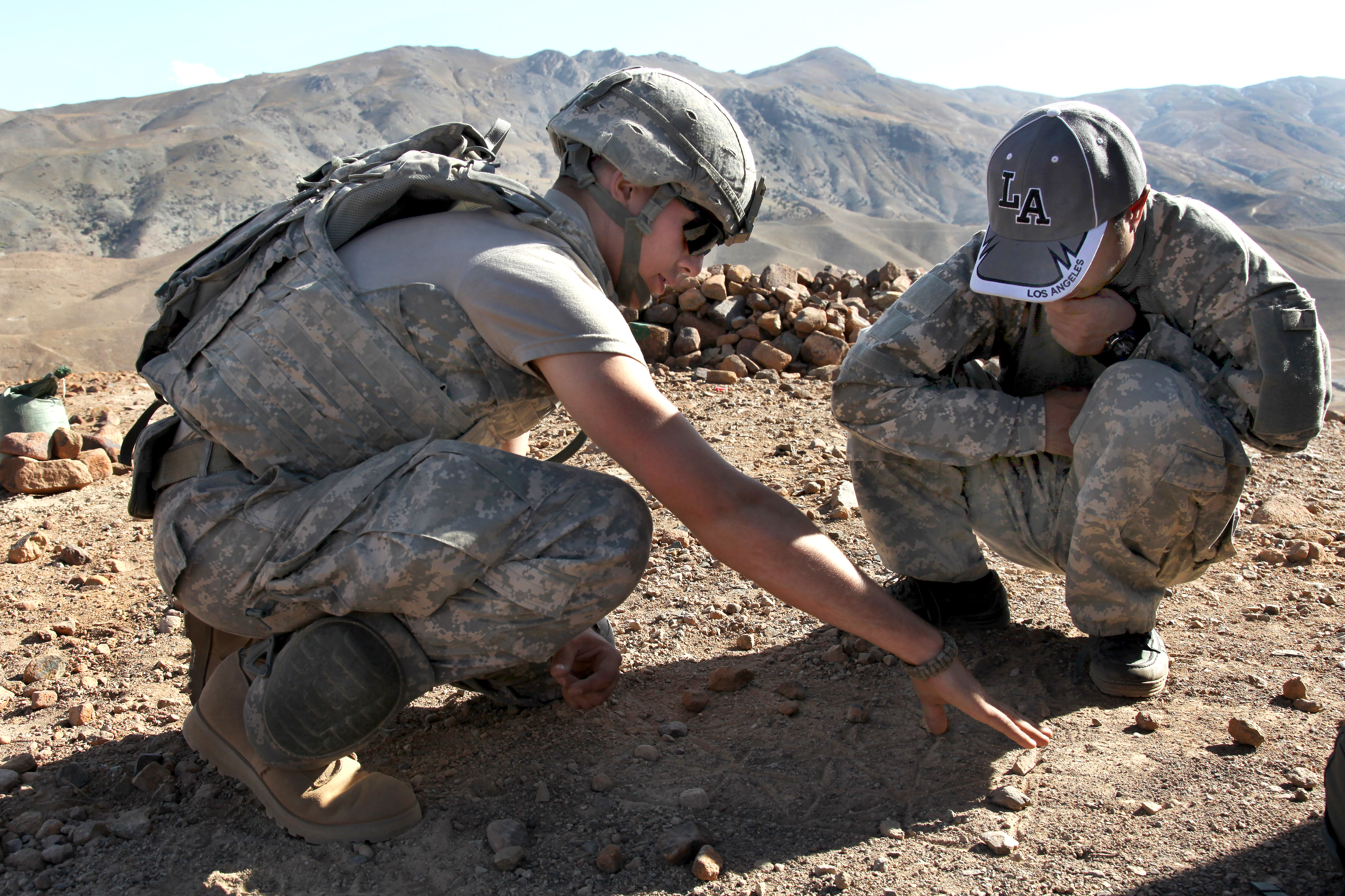 U.S. Army Pfc. Nicholas Weeks plays an Afghan checkers-style game with Nas Nahs, an interpreter, in the Kohi Safi district, Afghanistan, Sept. 6, 2009. Weeks is assigned to the 82nd Airborne Division's Company B, Special Troops Battalion. U.S. Army photo by Sgt. Teddy Wade See more at